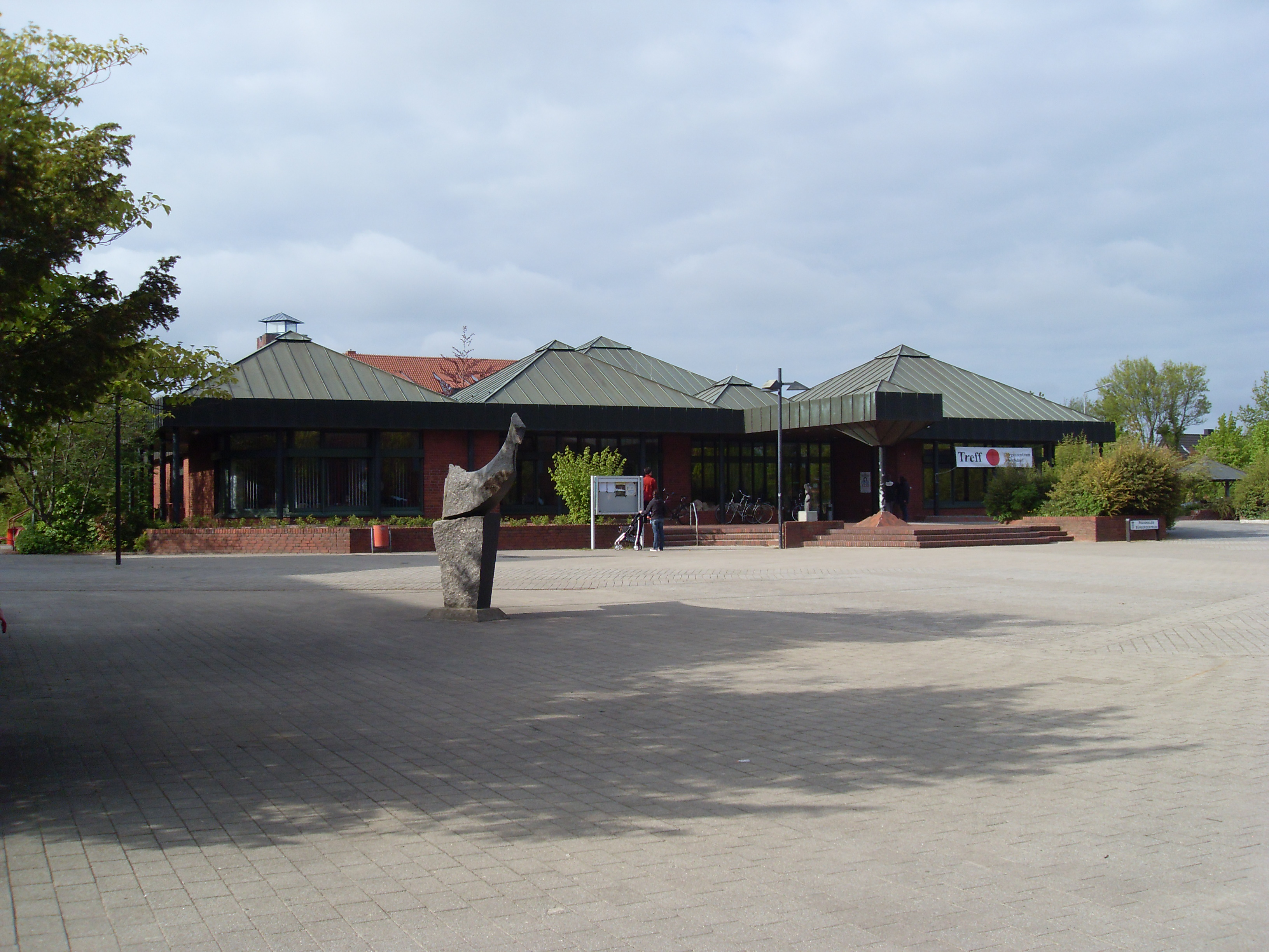 Community Center close to the city hall in Büdelsdorf